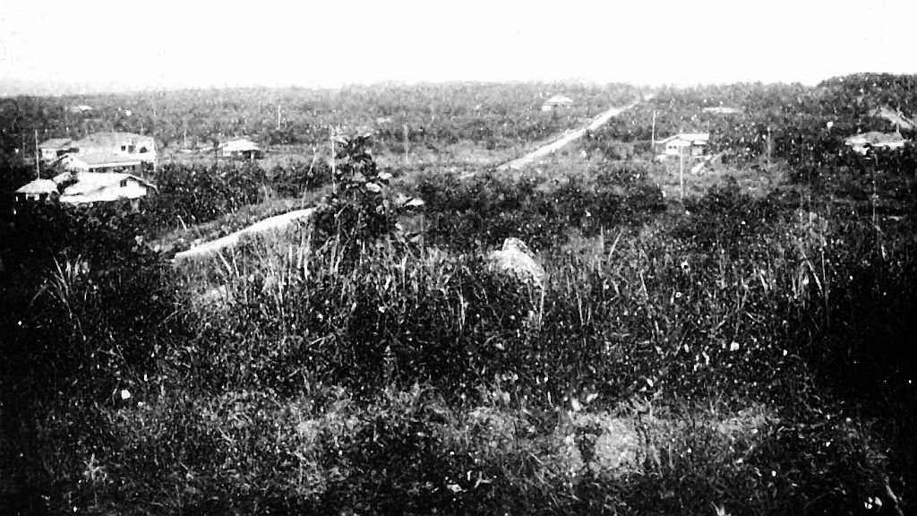 Ikkyo Village (Naganohara, Gunma).